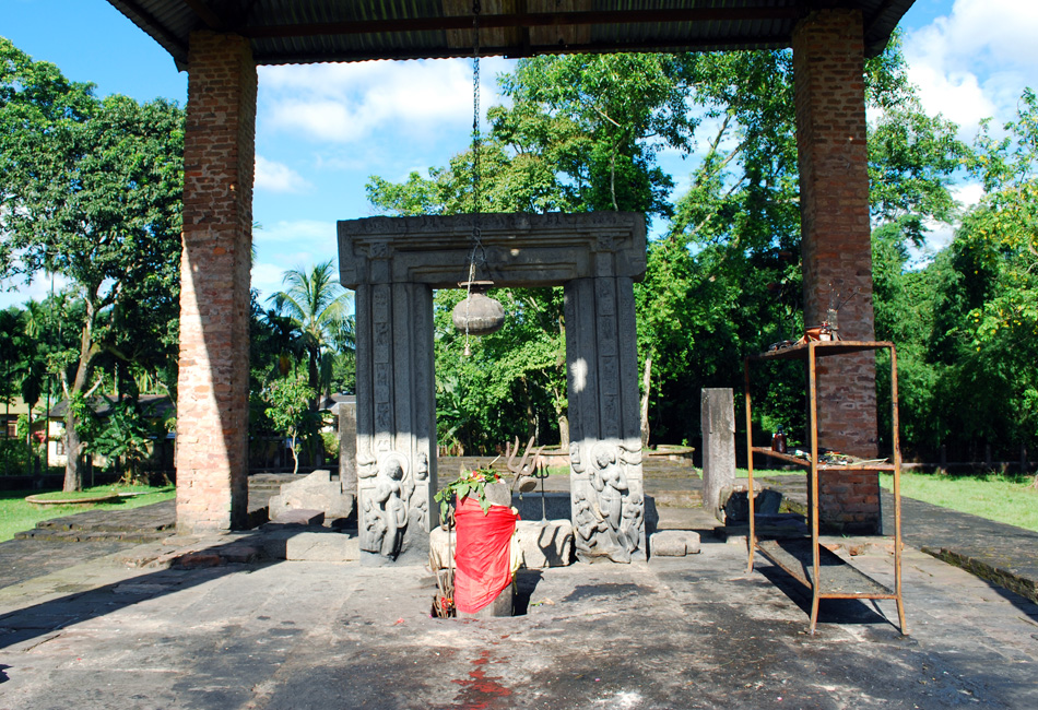 Da-Parbatia in Tezpur (Assam) is the oldest and finest representation of sculptural or iconoclastic art in Assam in the form of the ruins of the door-frame of the Da-parbatia temple.